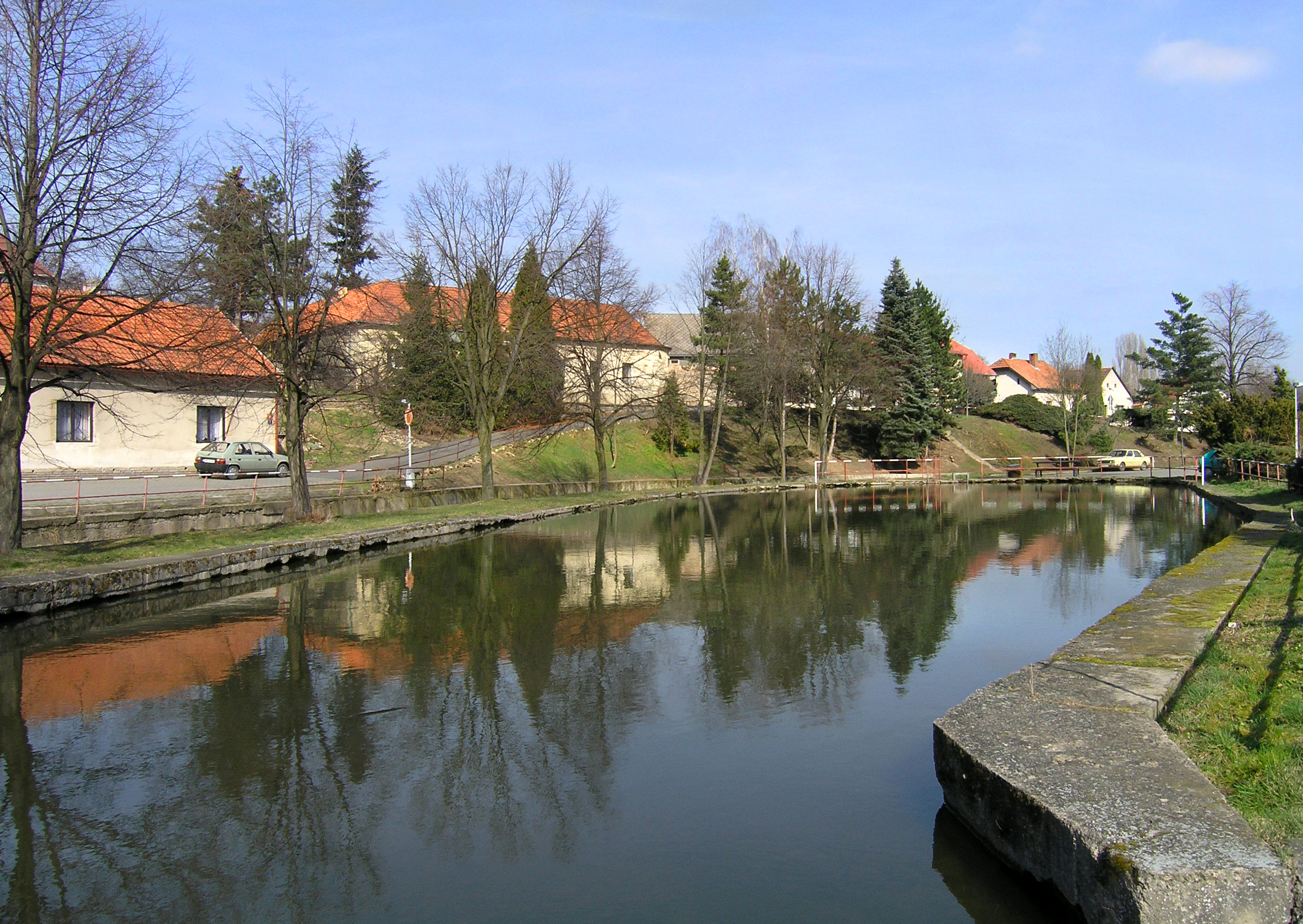 Common at Nedvězí with Rokytka creek, Prague